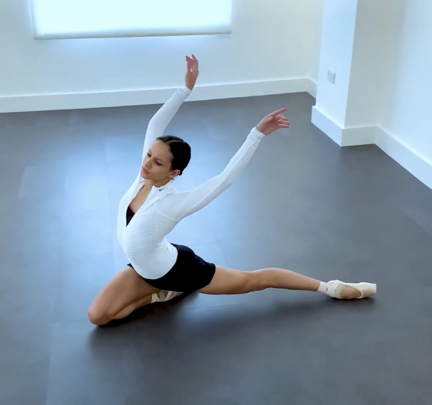 Swans For Relief - Francesca Hayward - The Royal Ballet, England Donate: 32 premier ballerinas from 22 dance companies in 14 countries perform Le Cygne (The Swan) variation sequentially in support of Swans for Relief. Organized by Misty Copeland and Joseph Phillips, 100% of the funds raised will be distributed to each dancer’s company’s COVID-19 relief fund, or other arts/dance-based relief fund in the event that a company is not set up to receive donations. To donate please visit, Ballet companies are largely dependent on revenue from performances to pay their dancers and fund their operations, but due to the coronavirus pandemic, all performances have been halted. Consequently, many dancers are unable to depend on paychecks and are facing the hardship of paying rent and/or buying food and other necessities. Le Cygne (The Swan) with music by Camille Saint-Saëns, performed by cellist Wade Davis (USA), with choreography by Michel Fokine by kind permission of the Fokine Estate-Archive.